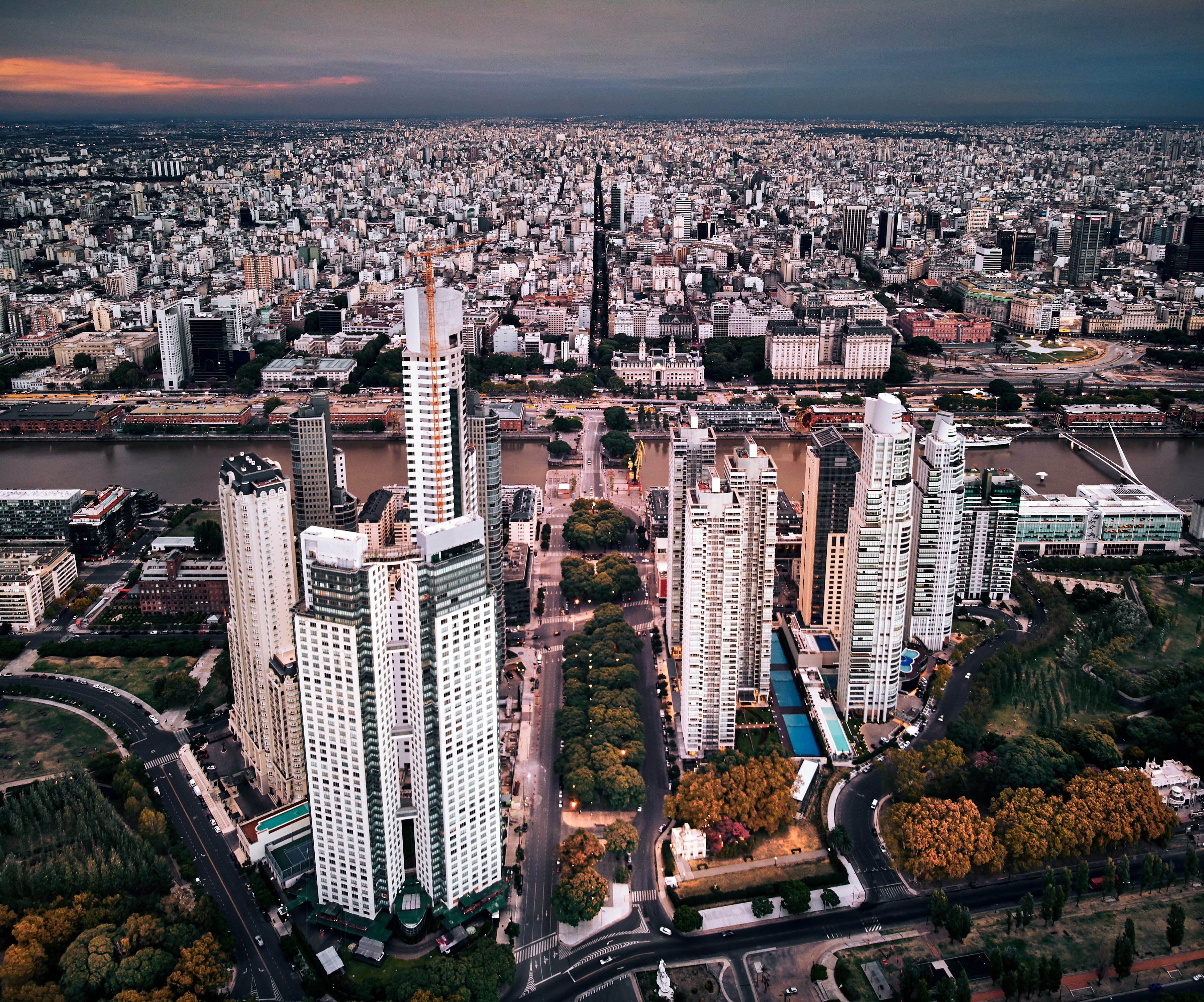 High-rises of Puerto Madero, Buenos Aires.